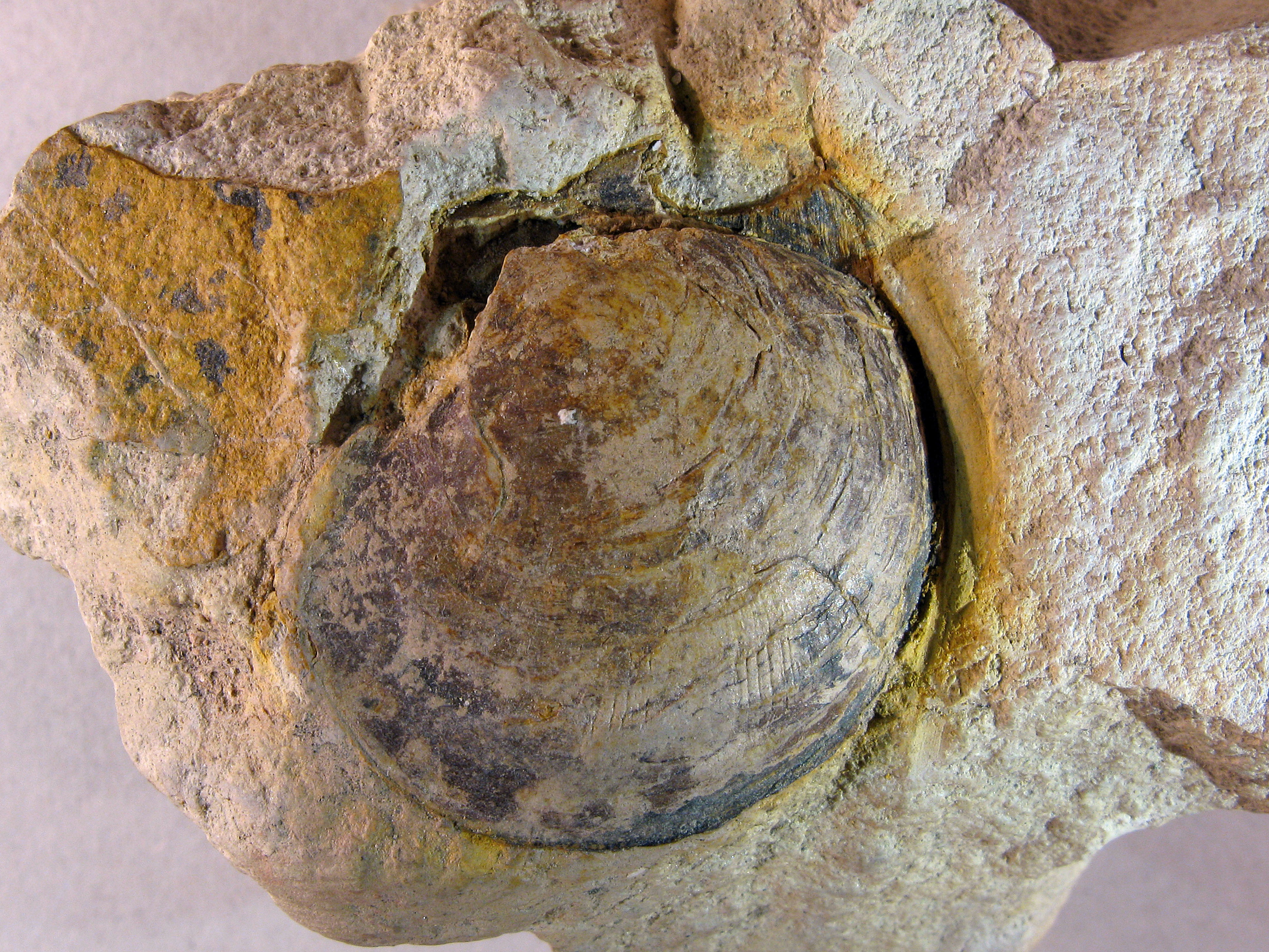 Musseel - scallop. Early Eocen Fur Formation